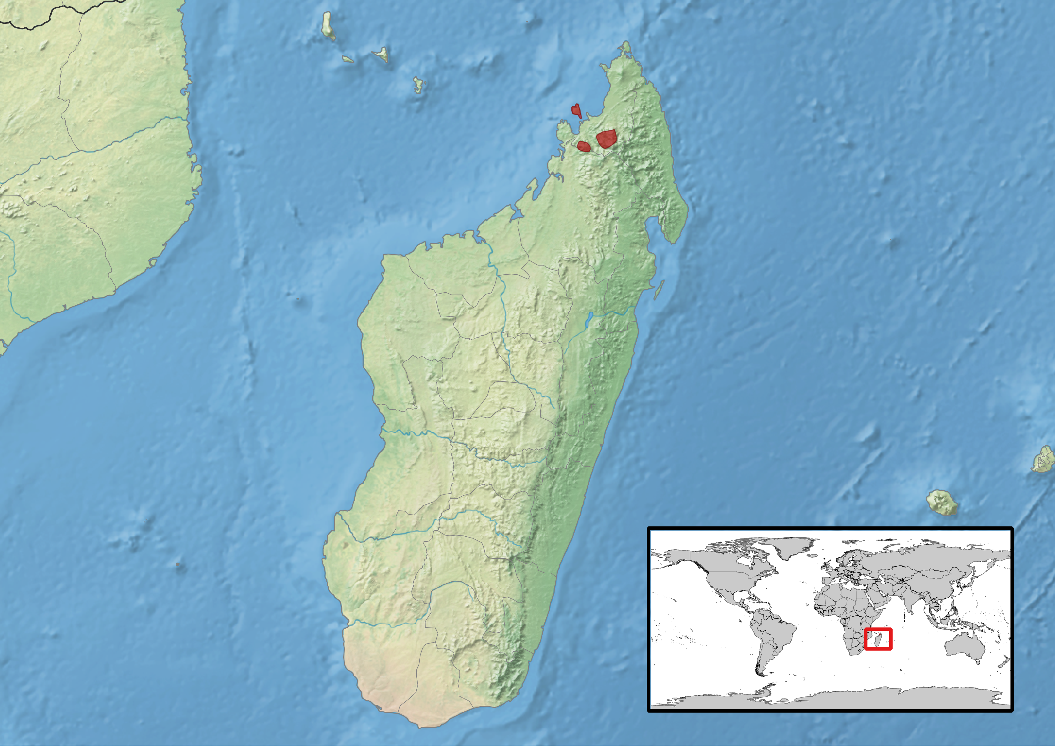 geographic distribution of Calumma boettgeri (Native: Madagascar)